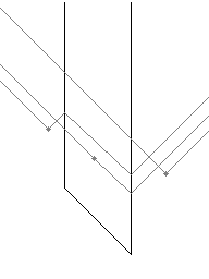 This is a diagram for Krasnikov Tube, which I (User:Ben Standeven) have created.